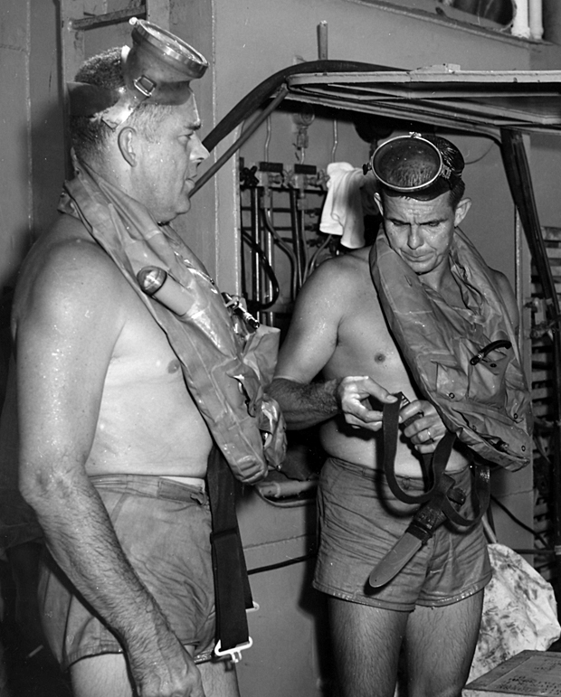 On October 2, 1959 approx. 15 miles SW of Key West, over Vestal Shoal, Commander (Medical Corps) George F. Bond and Chief Engineman Cyril Tuckfield safely completed a 302 foot buoyant ascent in 52 seconds from the forward escape trunk of the USS Archerfish, which had bottomed at 322 feet